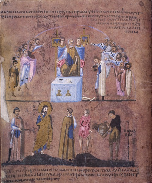 Jesus before Pilate